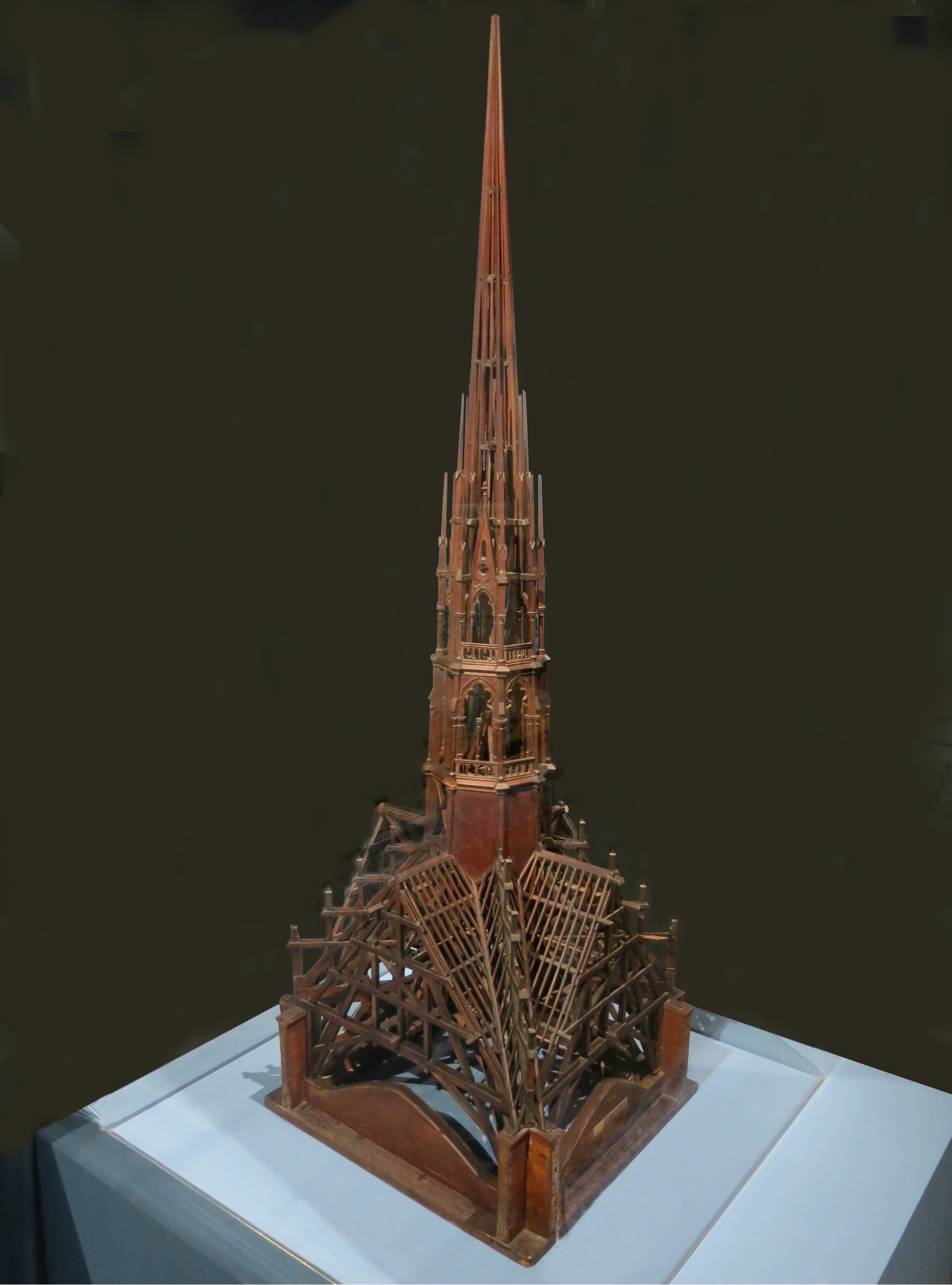 Model of the carpentry of the tower of the cathedral Notre-Dame de Paris by Auguste Bellu. Musée des Monuments Français. D.MAP/CRMH24a.